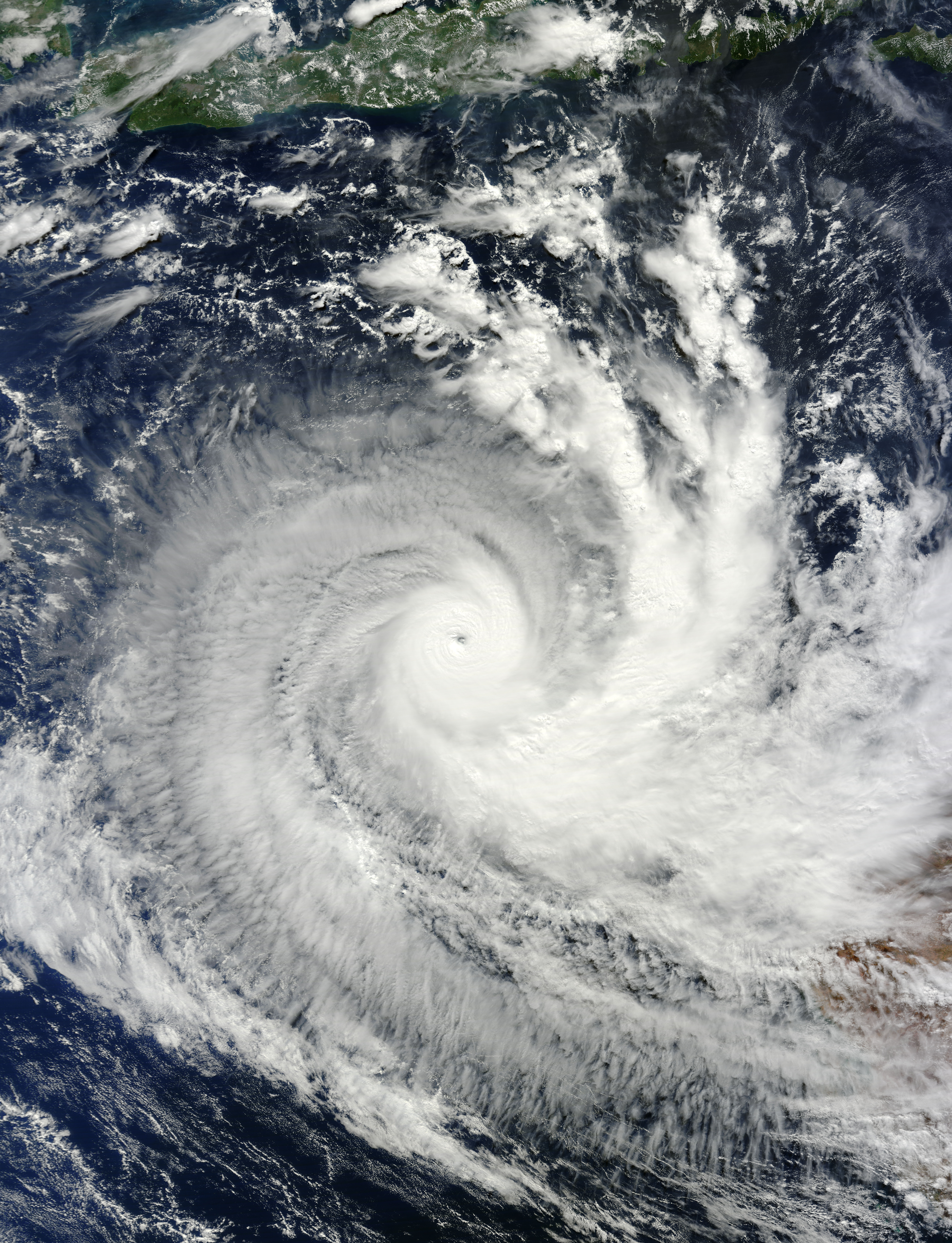 Severe Tropical Cyclone Quang on April 30, 2015